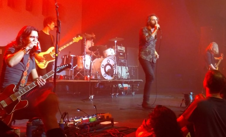 Dutch rock band Navarone performing at the Effenaar in Eindhoven. From left to right: Roman Huijbreghs, Bram Versteeg, Robin Assen, Merijn van Haren and Kees Lewiszong.